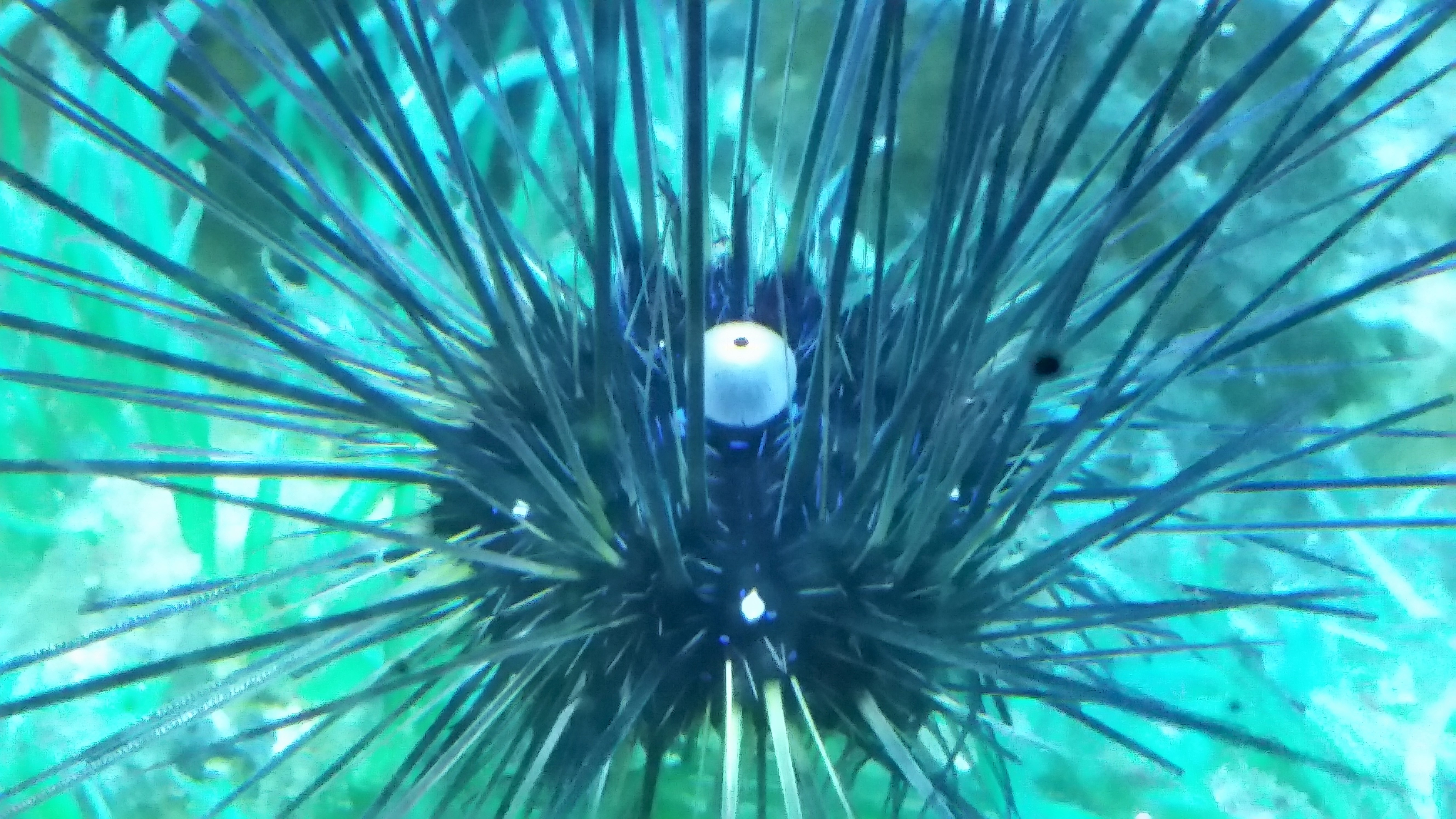 Black sea urchin or long-spined sea urchin (Diadema antillarum) in Southend-on-Sea aquarium, England.